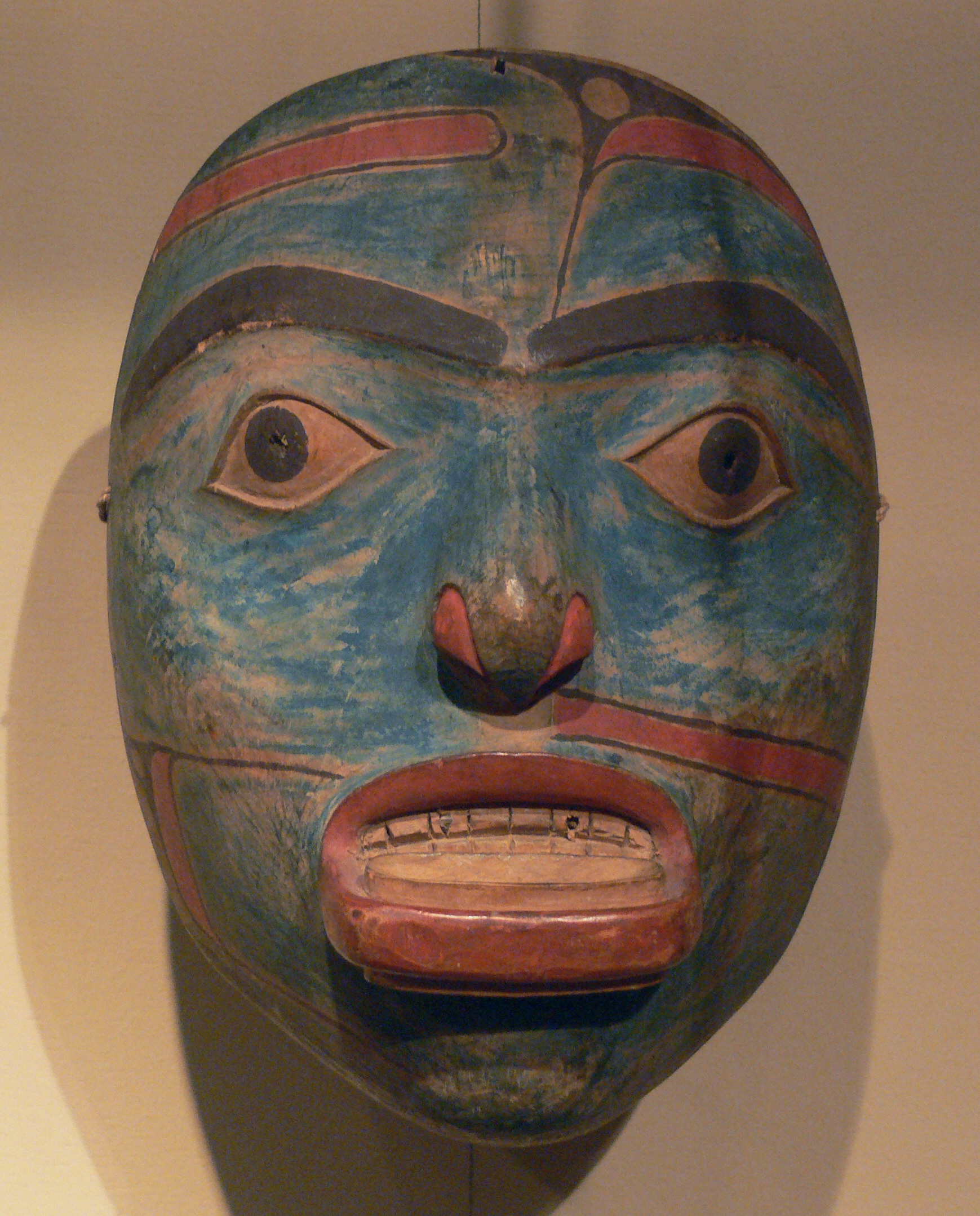 Mask of a mythical ancestress with lip phig; Haida people; North America department, Ethnological Museum, Berlin, Germany (Deppe collection, 1837